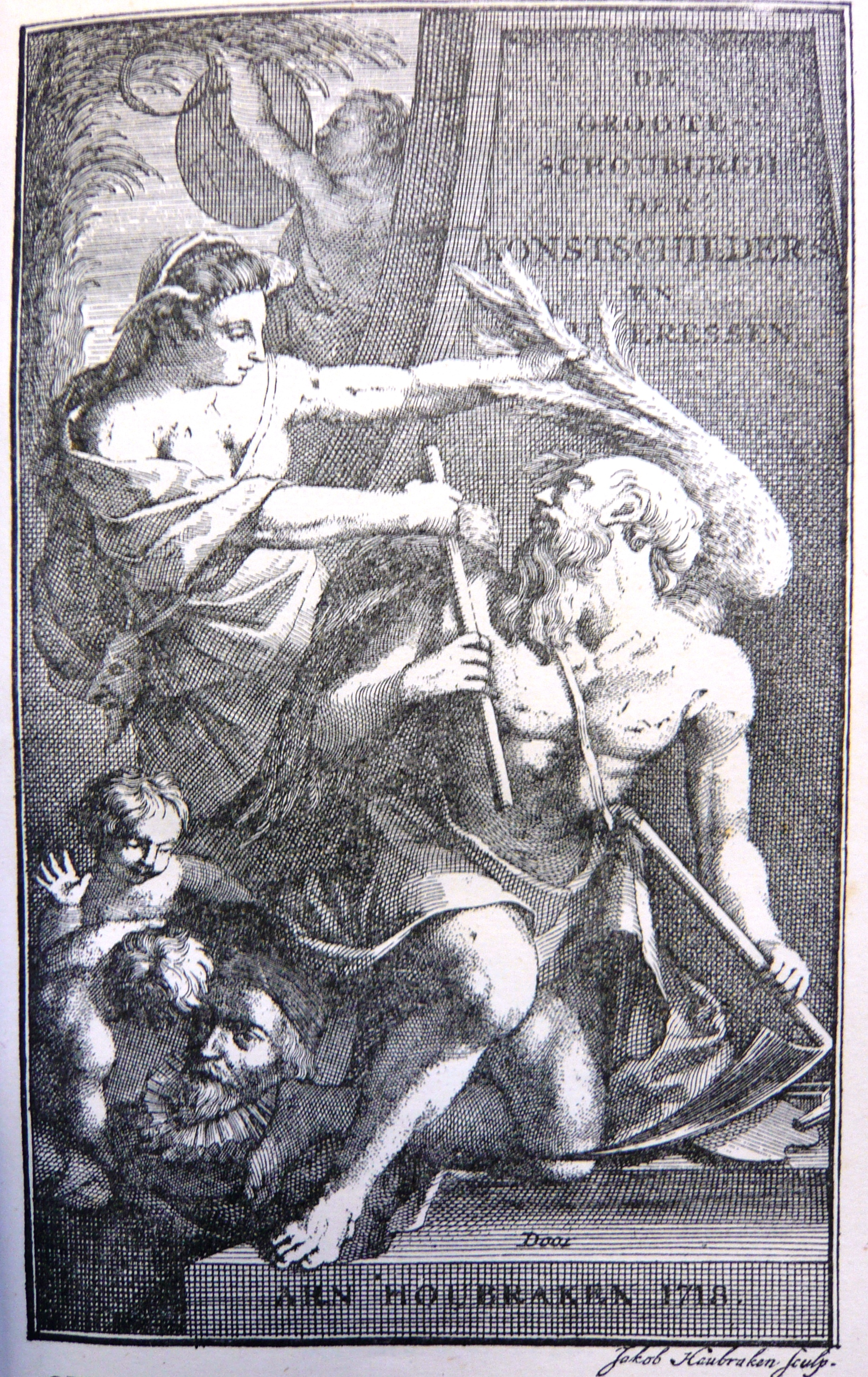 Schouburg Part 1 Title print with Otto van Veen, Page 1 of Part 1 of Arnold Houbraken's Schouburg from 1718